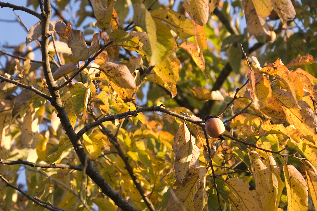 An American Persimmon Diospyros virginiana tree bearing fruit in the fall. The color of the tree's leaves are yellow because of the decrease in chlorophyll. Cartenoids provide the colorations of yellow, brown, orange, that tint the leaves.